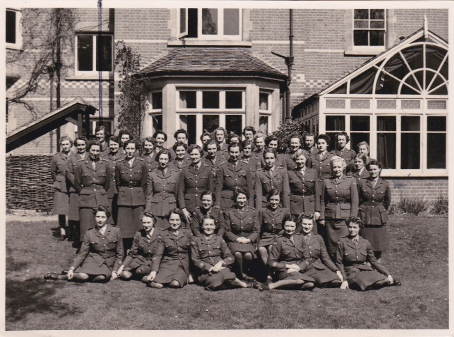 Maud Lilburn MacLellan OBE (October 6, 1903 – May 21, 1977) was a Scottish commanding officer of the First Aid Nursing Yeomanry (FANY). Whilst being obliged to serve with the ATS during the war she taught the future Queen Elizabeth to drive. Guess photo as April 1945